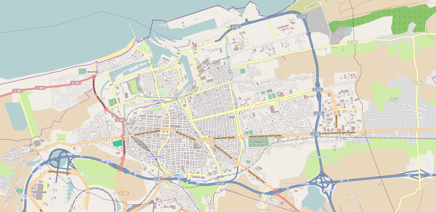 Map of Calais, France